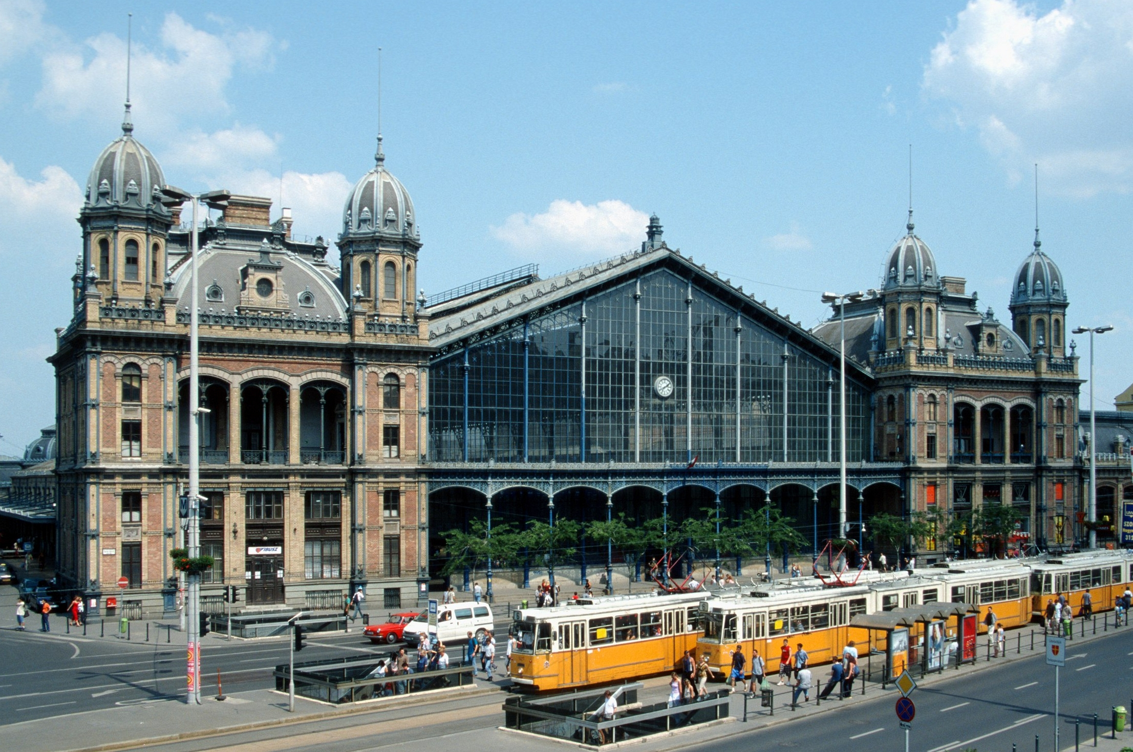 Budapest-Nyugati railway station, street view